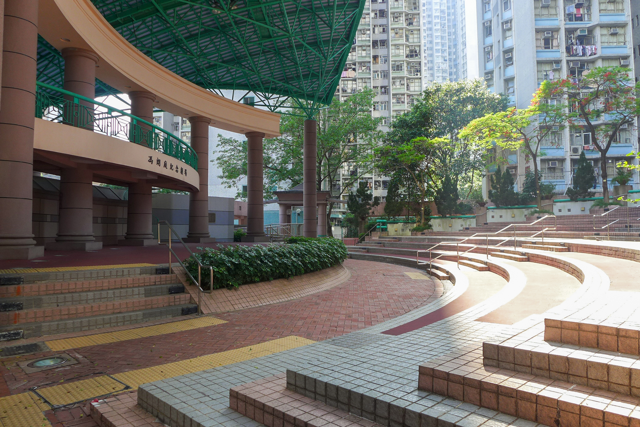 Hau Tak Estate Amphitheatre